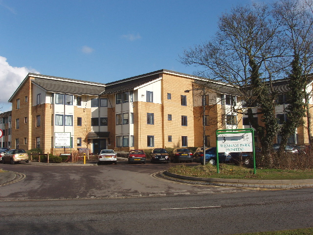 Wexham Park Hospital, Stoke Green, Slough. A large hospital spread out within the park. View north from Church Lane near Wexham Road.